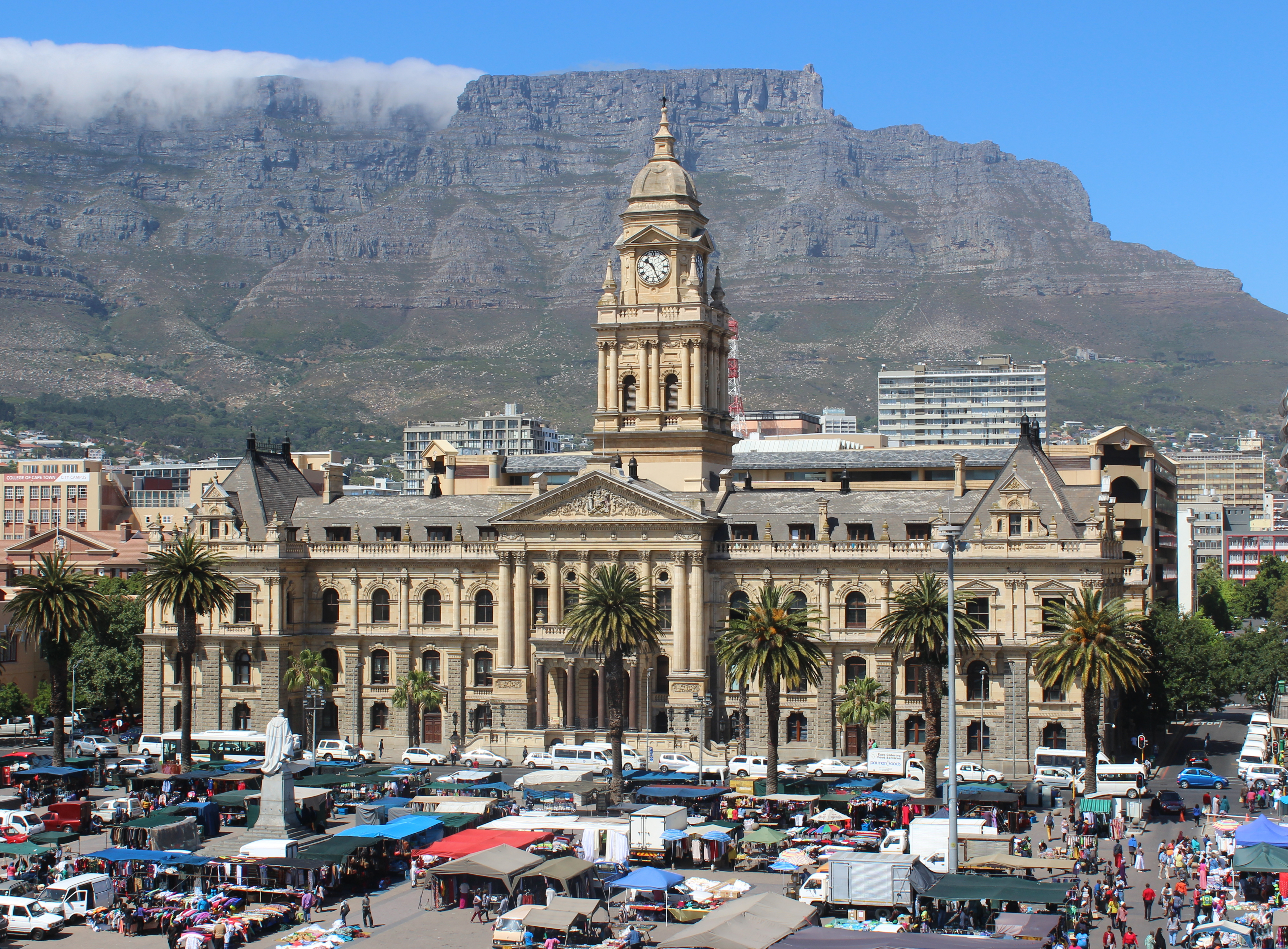 Cape Town City Hall (built 1905) with Table Monutain in the background and the Grand Parade in the foreground. This media shows a South African Protected Site with SAHRA file reference 9/2/018/0115See also: External entry in South African Heritage Resource Agency database.